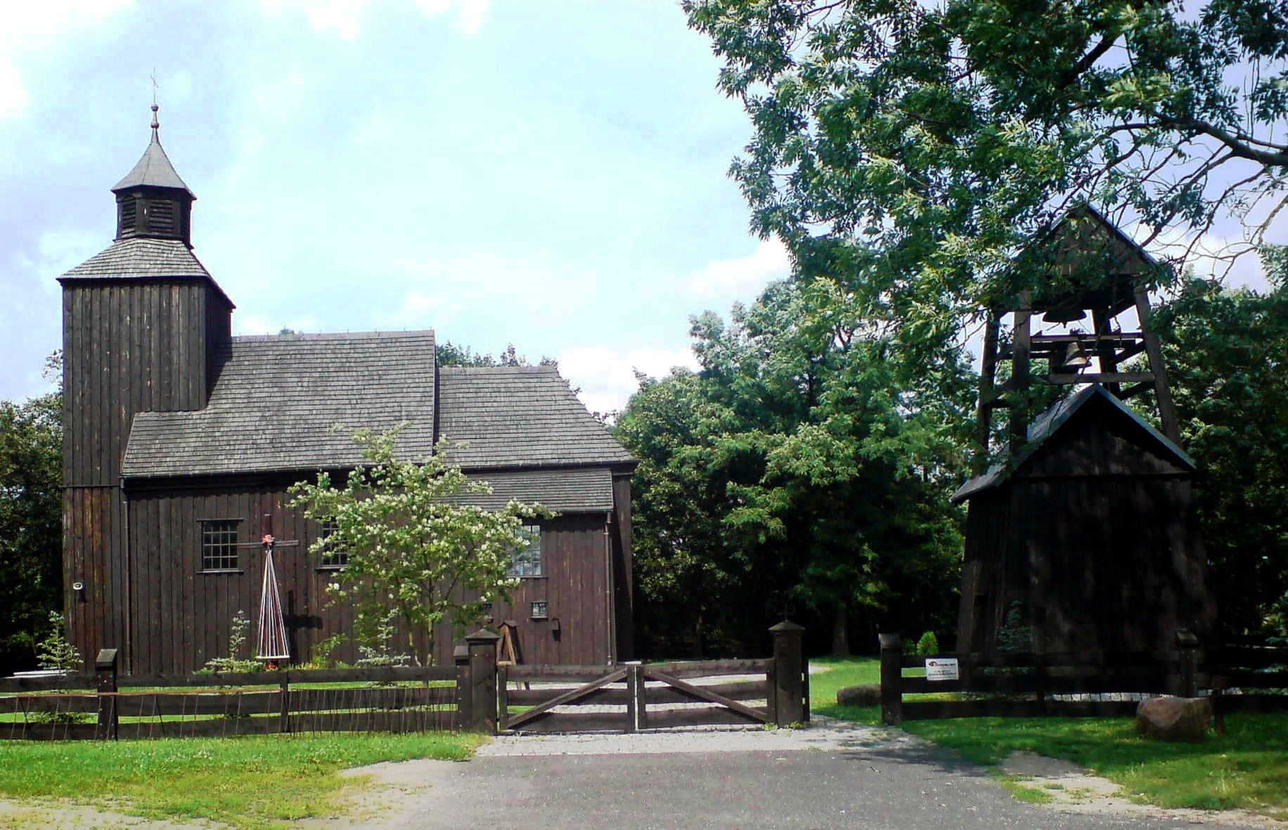 The church in Młyniec II, Poland.